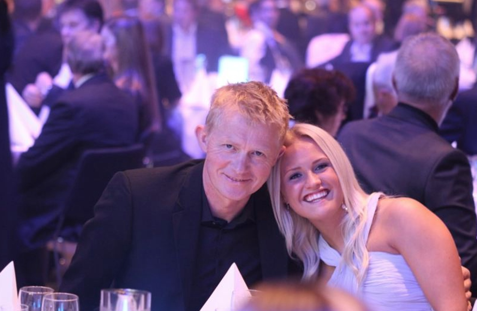 Motorsport Gala 2015